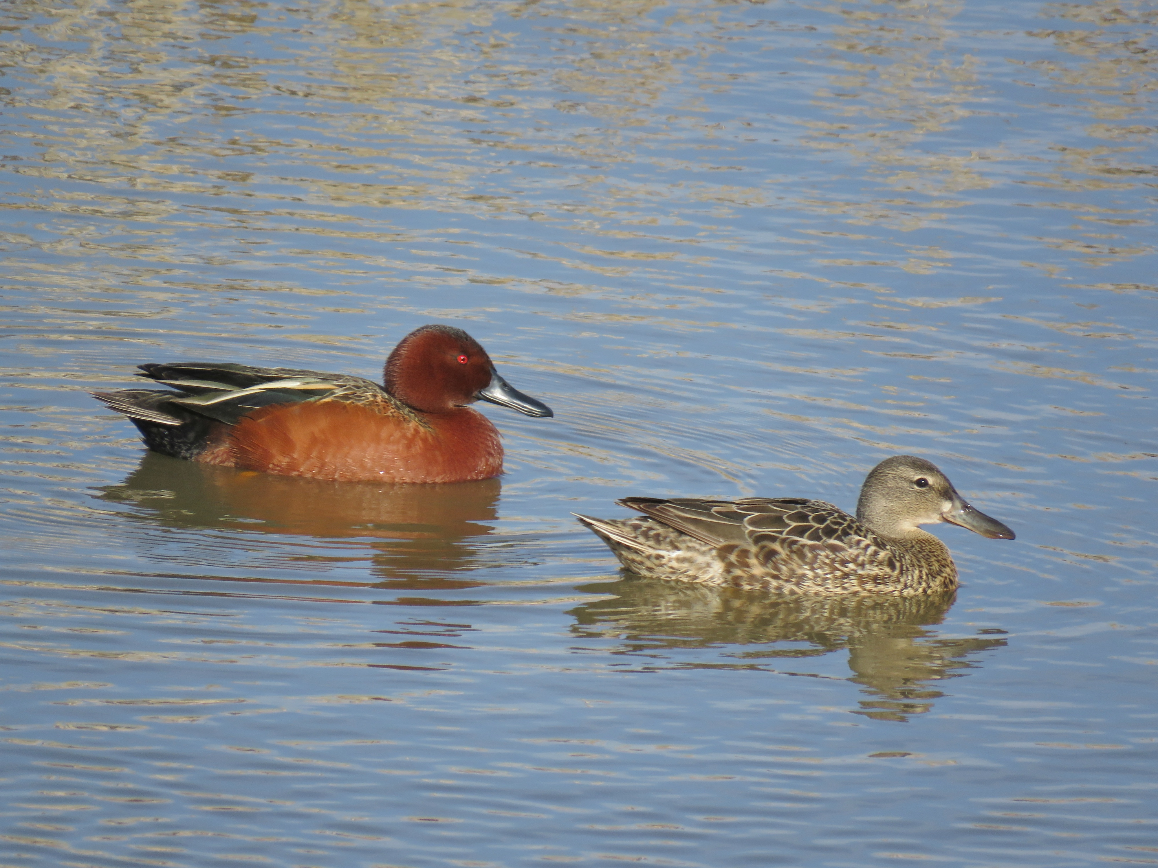 Pair of Cinnamon Teal photographed near Pakowki Lake, Alberta, Canada.